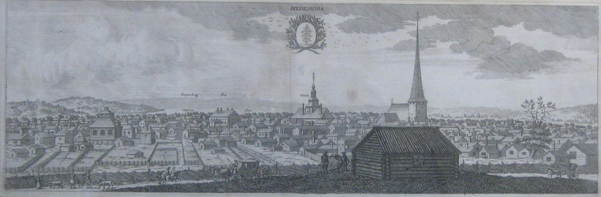 The city of Hedemora in Sweden * Engraving made sometime ca 1700 * Photograph by me of the engraving from Svecia Antiqua et Hodierna.